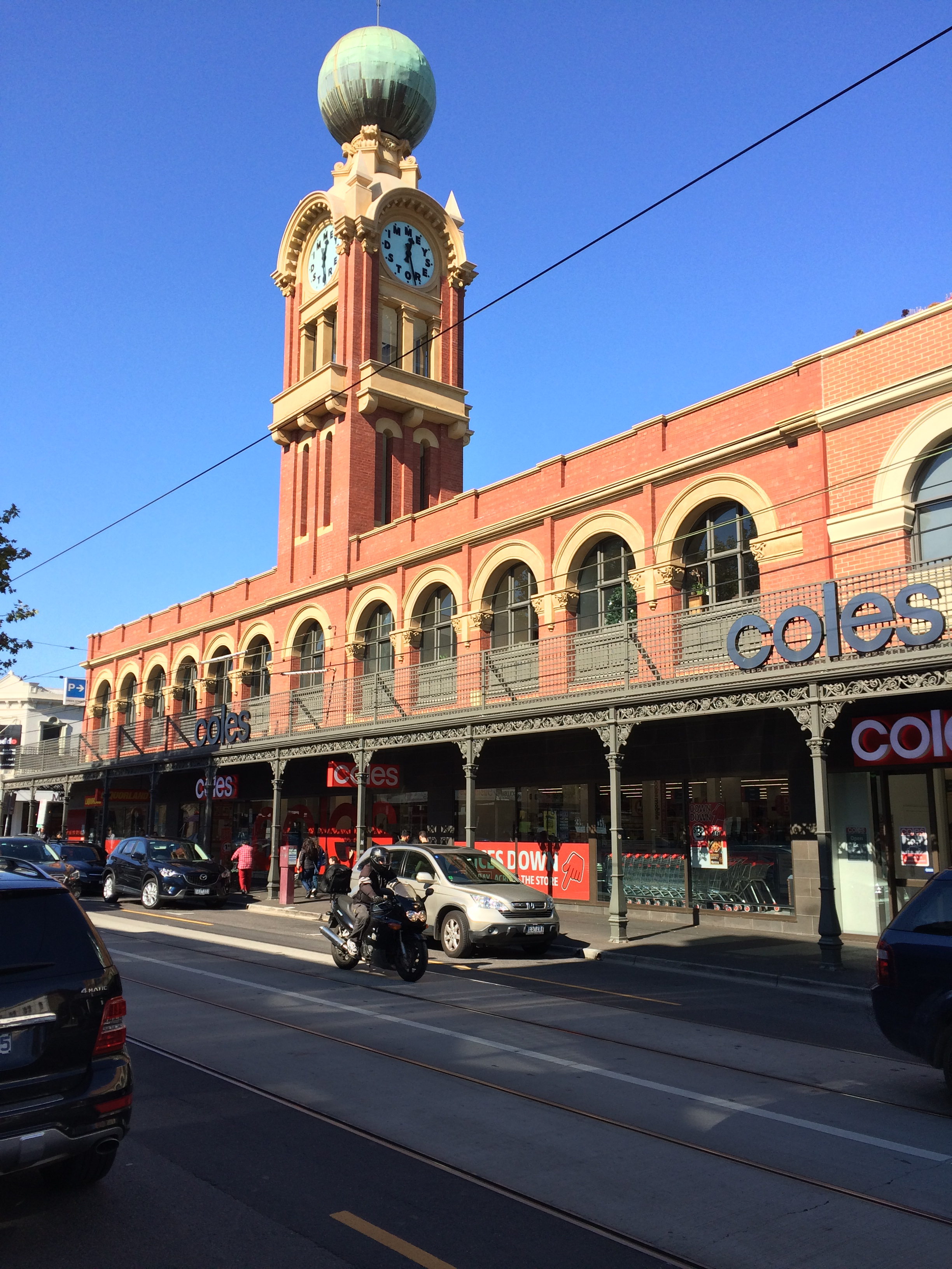 Dimmey's Store on Swan St in Cremorne